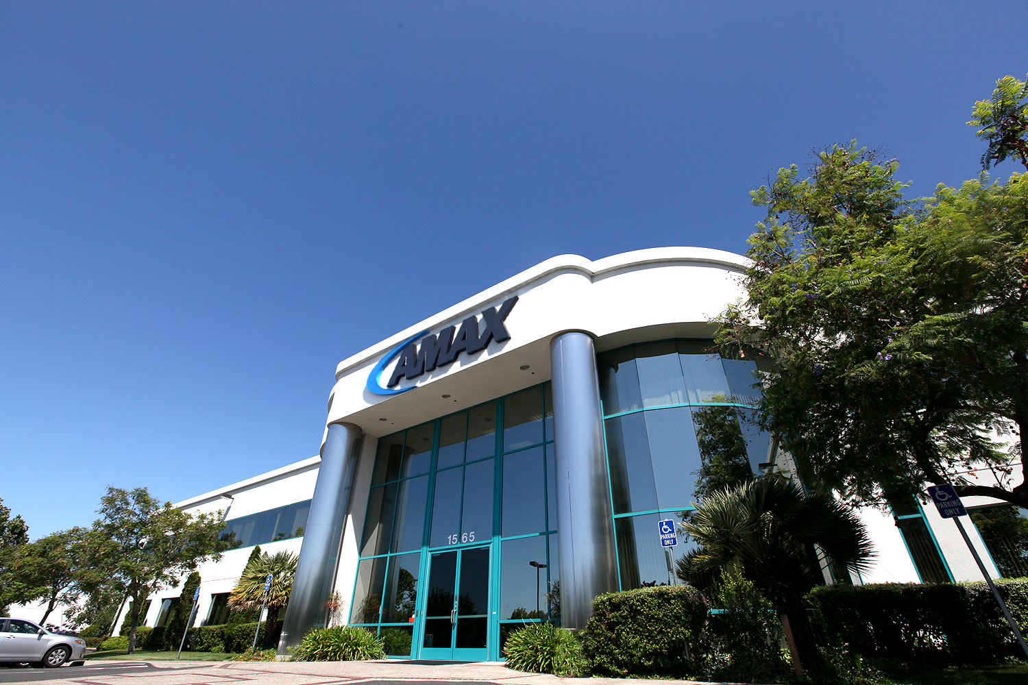 AMAX Building Fremont Headquarters